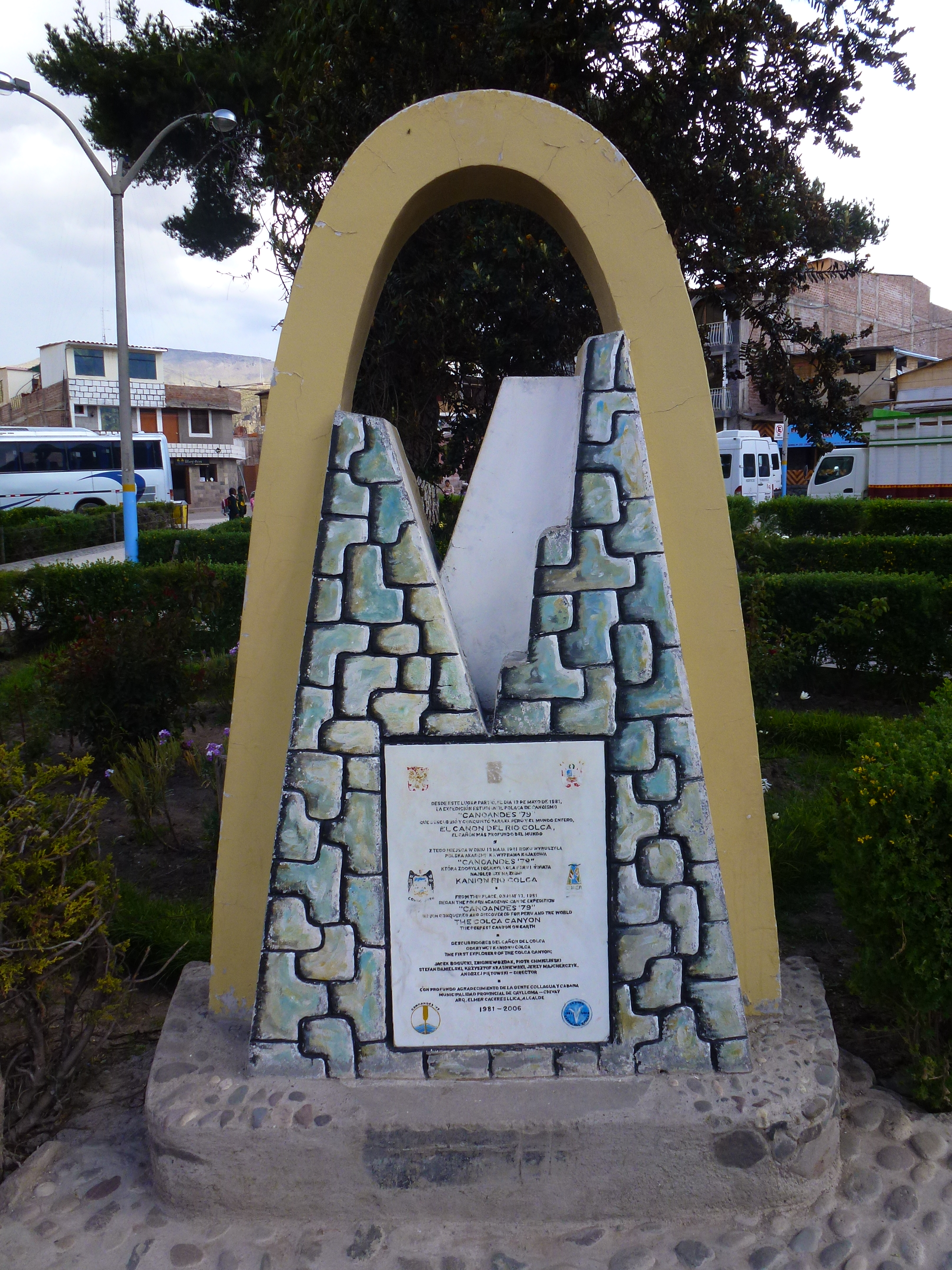 Monument memorising Polish Canoandes rafting expedition - first exploring Canion Colca in Peru which started in Chivay